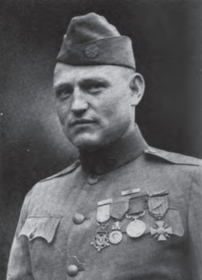 Corporal Jake Allex, United States Army, received the Medal of Honor for his actions in World War I. The medals he is wearing are, from left to right, the Army Medal of Honor, the Médaille militaire, the Distinguished Conduct Medal, and the Croix de guerre with palm.